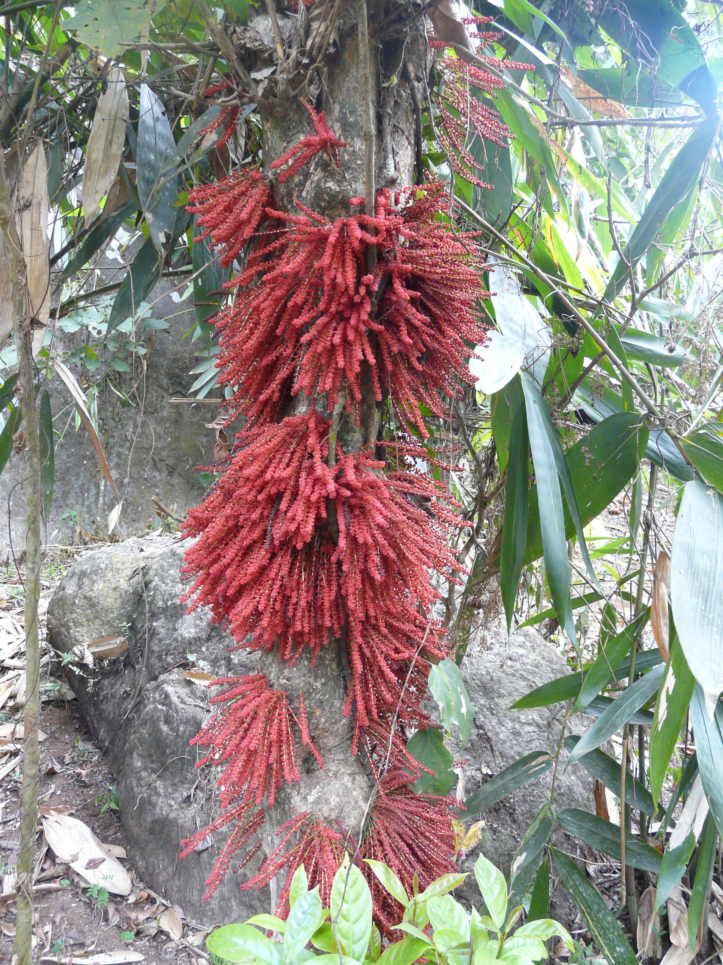 Profusely fruiting (cauliflorous) Baccaurea courtallensis, a species endemic to Western Ghats